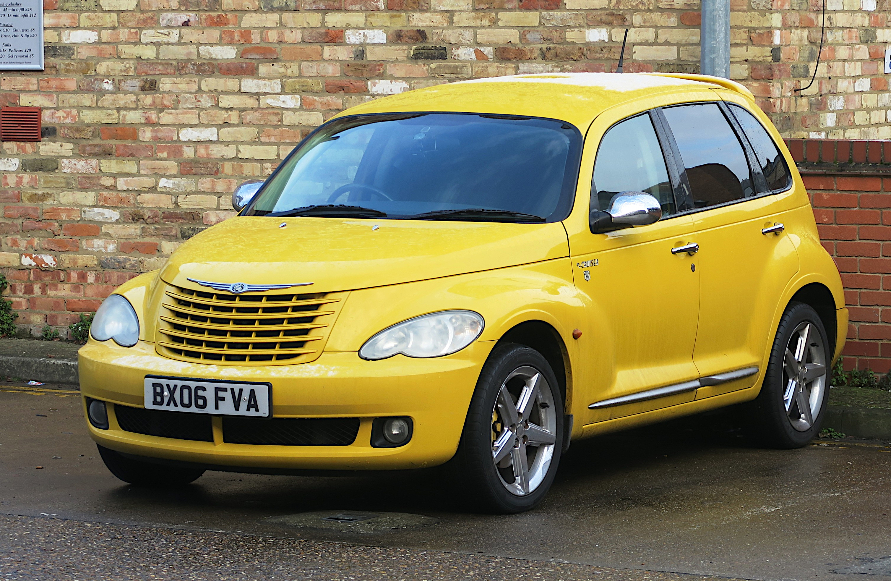 Chrysler PT Cruiser behind the Kite shopping Mall in Cambridge